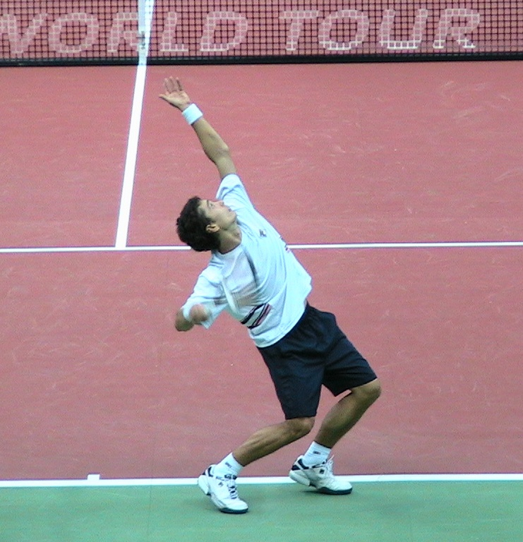 Igor Kunitsyn serving during his 1st tound match at 2009 Kremlin Cup in Moscow